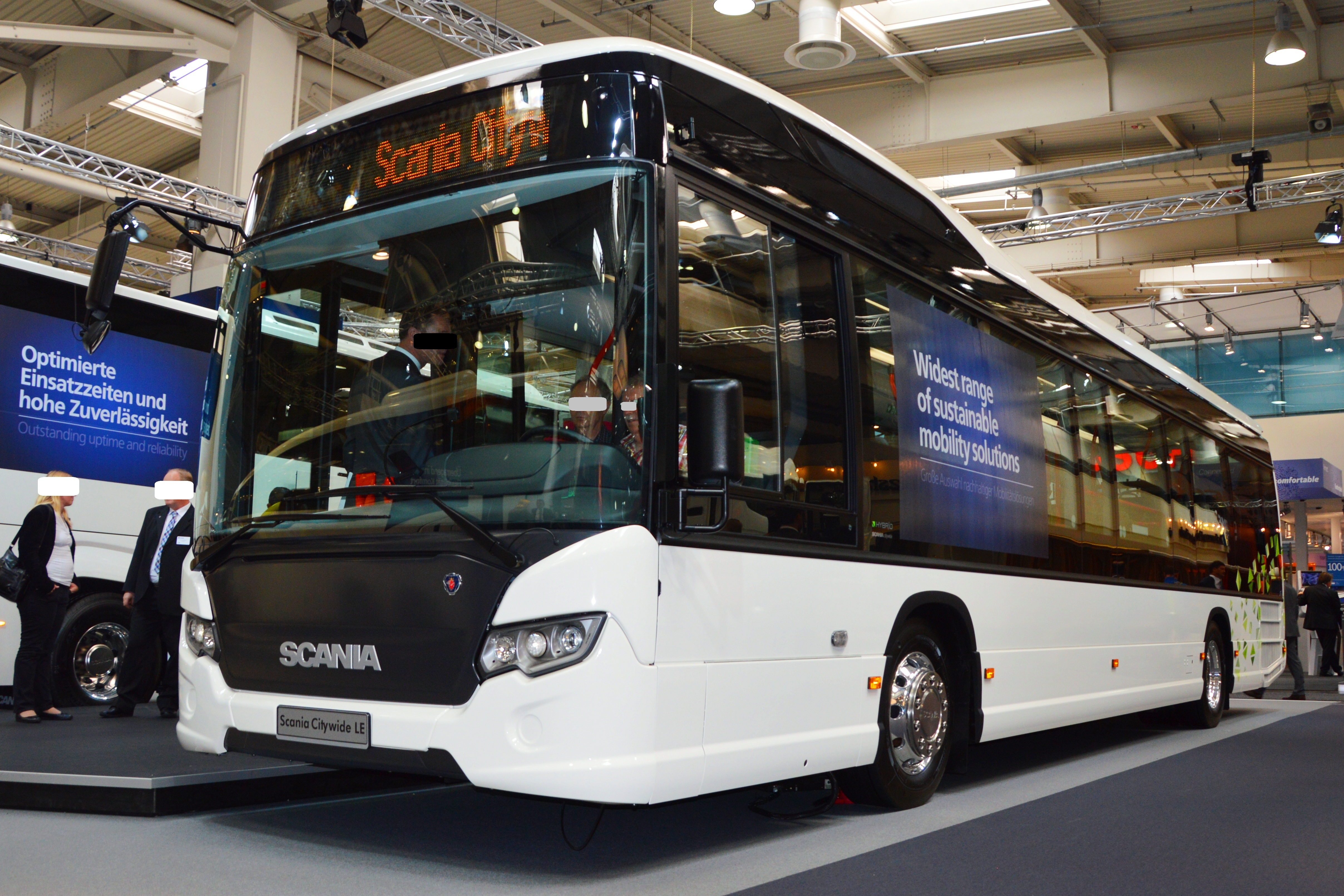 Scania Citywide LE hybridbus. 2 Engines: 1 x 9-litre Scania inline 5-cylinder Diesel (184 kW) and 1 x electric engine 150 kW. Length: 12 m. Photo taken at exhibition IAA 2014 in Hanover, Germany.